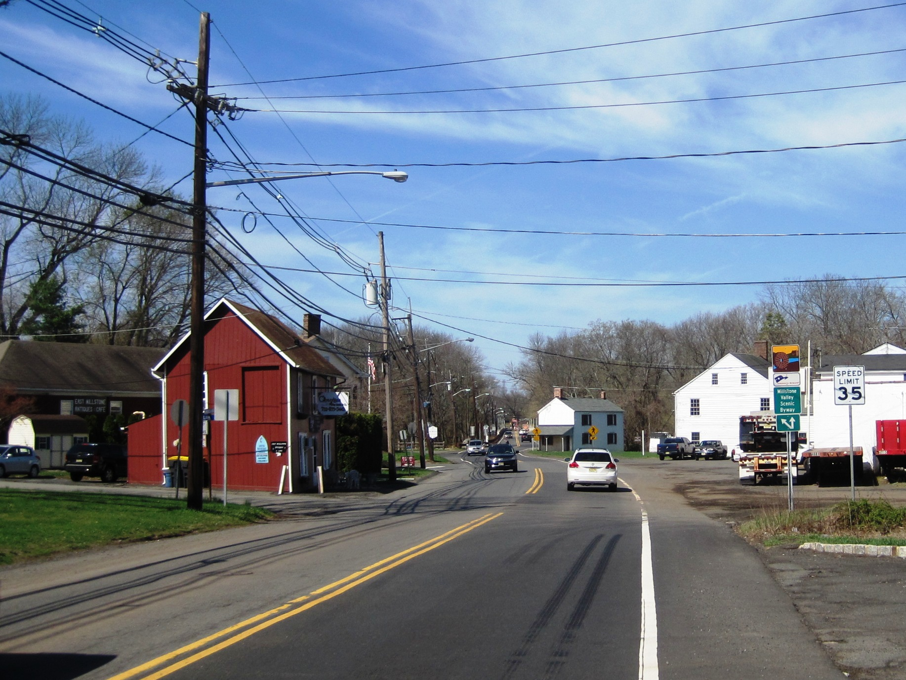 Photo of the community of East Millstone, New Jersey, a census-designated place within Franklin Township. Photo taken along westbound Amwell Road (County Route 514).